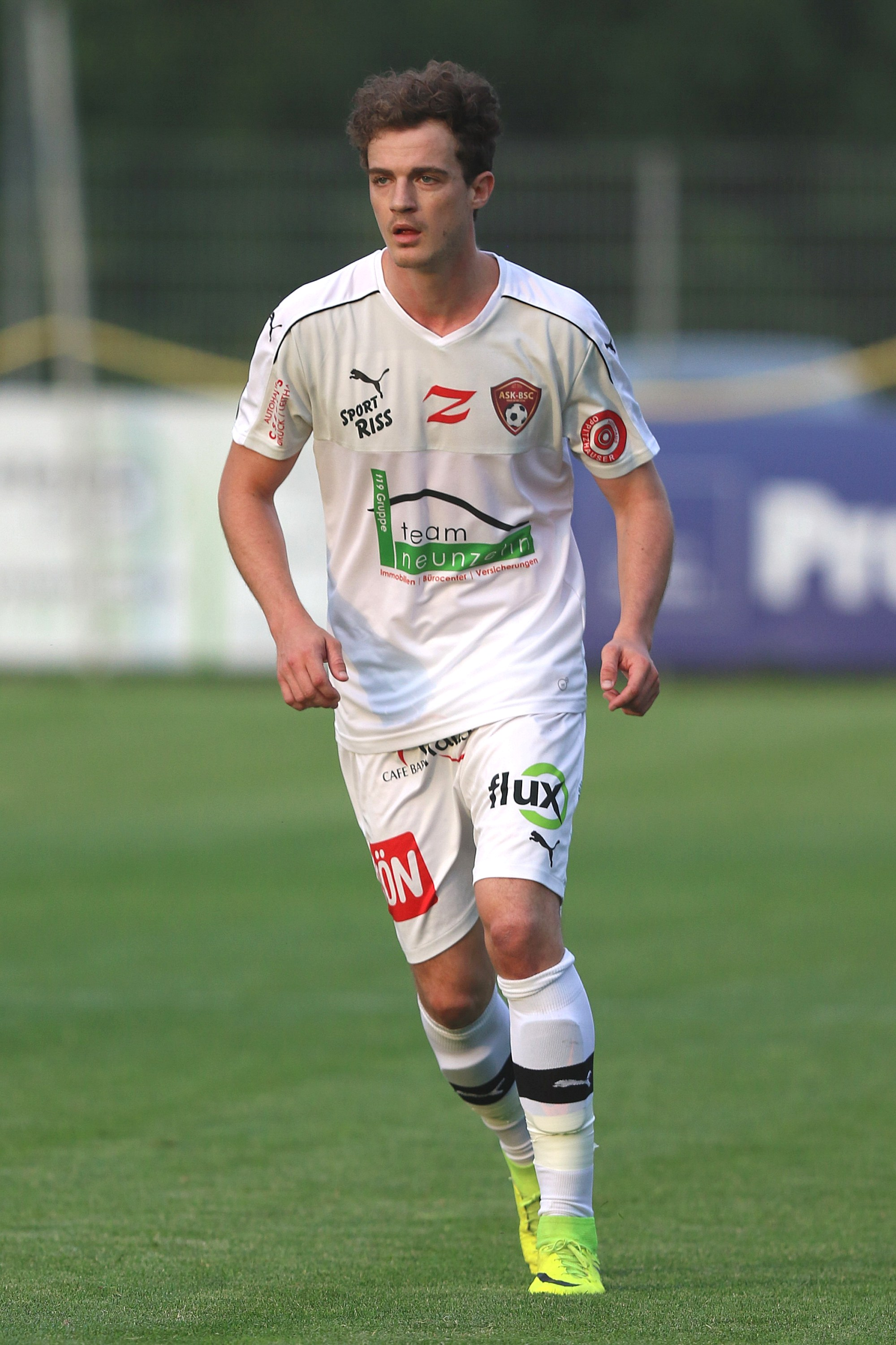 2017–18 Austrian Cup - SC Bad Sauerbrunn (blue-white shirts) vs. ASK-BSC Bruck an der Leitha (white shirts) 0-4. – The photo shows Thomas Horak.